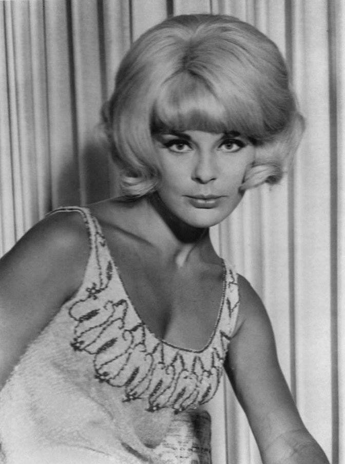 Photo of actress Elke Sommer from a guest appearance on The Jack Benny Hour.